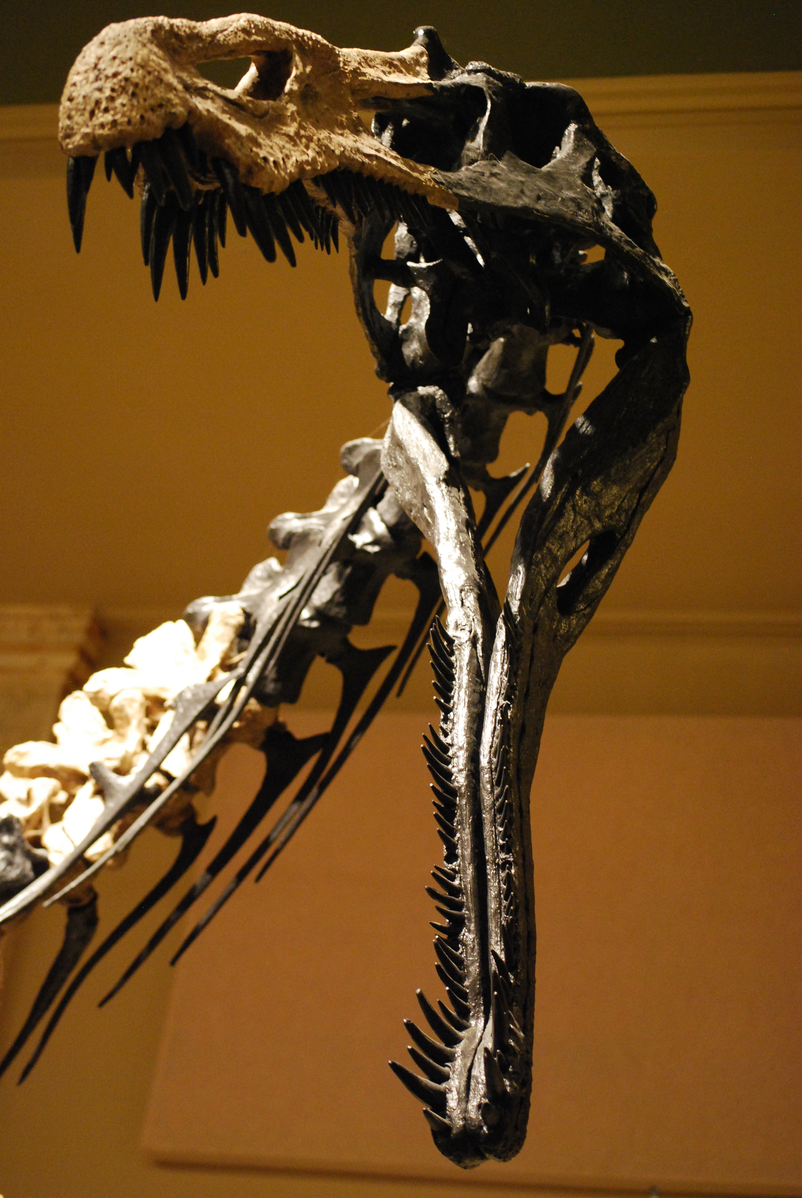 Cast of a Suchomimus tenerensis skull at the Kenosha Dinosaur Museum